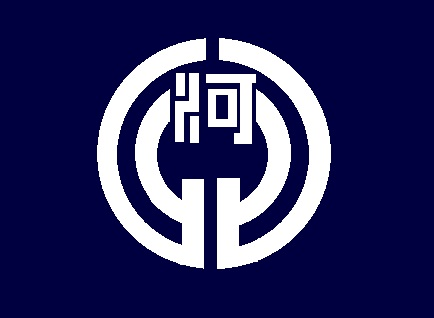 Flag of Kahoku Yamagata